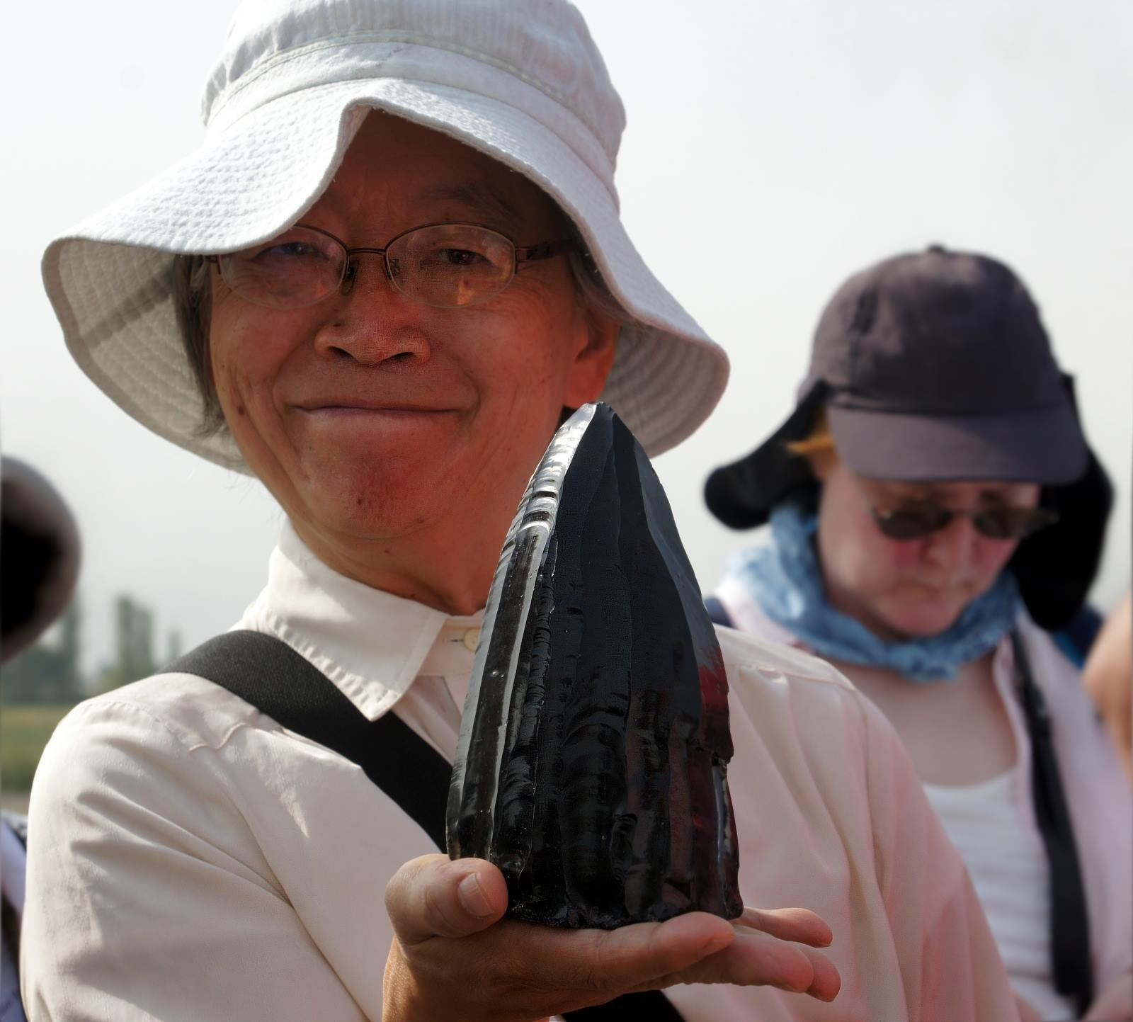 Dr. Michiko Yajima (Japan) with ricently discovered Neolitic blank obsidian (21 Sept. 2017)